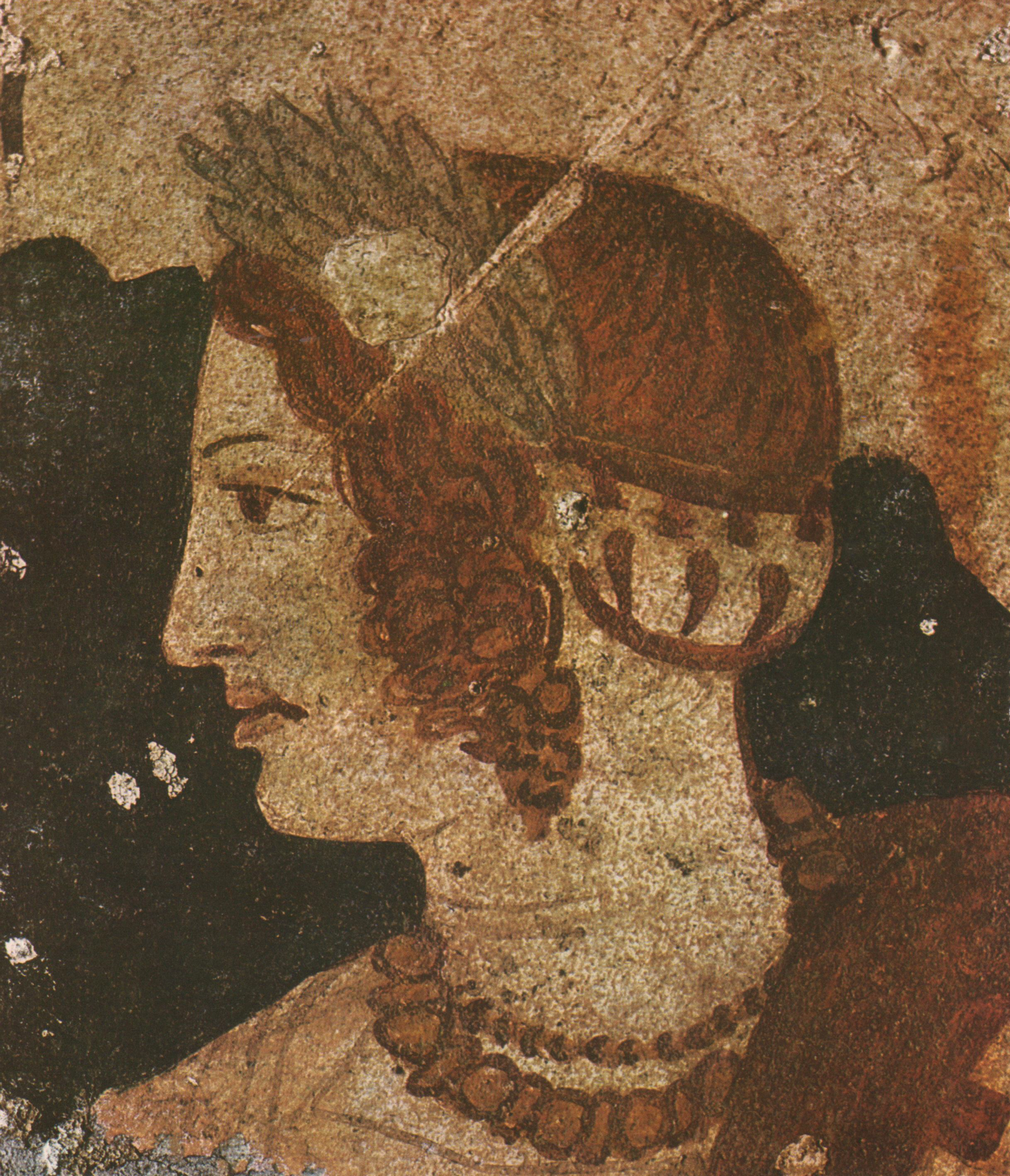 Fresco portrait of an Etruscan woman called Velia, burial chamber site Tomba dell’Orco in Tarquinia, Lazio, Italy